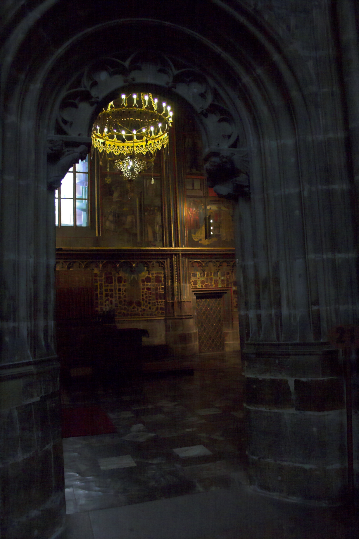 St. Vitus Cathedral, Chapel of St. Wenceslaus